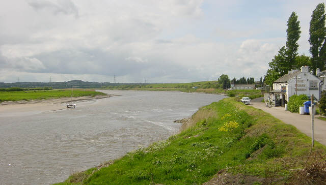 Fiddlers Ferry, River Mersey The Ferry Tavern alongside the River Mersey at Fiddlers Ferry, west of Warrington.